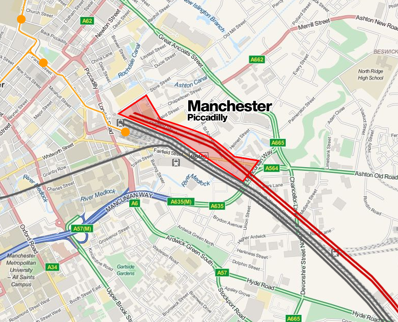 Map of the proposed extension of Manchester Piccadilly station, UK, as part of the HS2 project This map may be incomplete, and may contain errors. Don't rely solely on it for navigation.